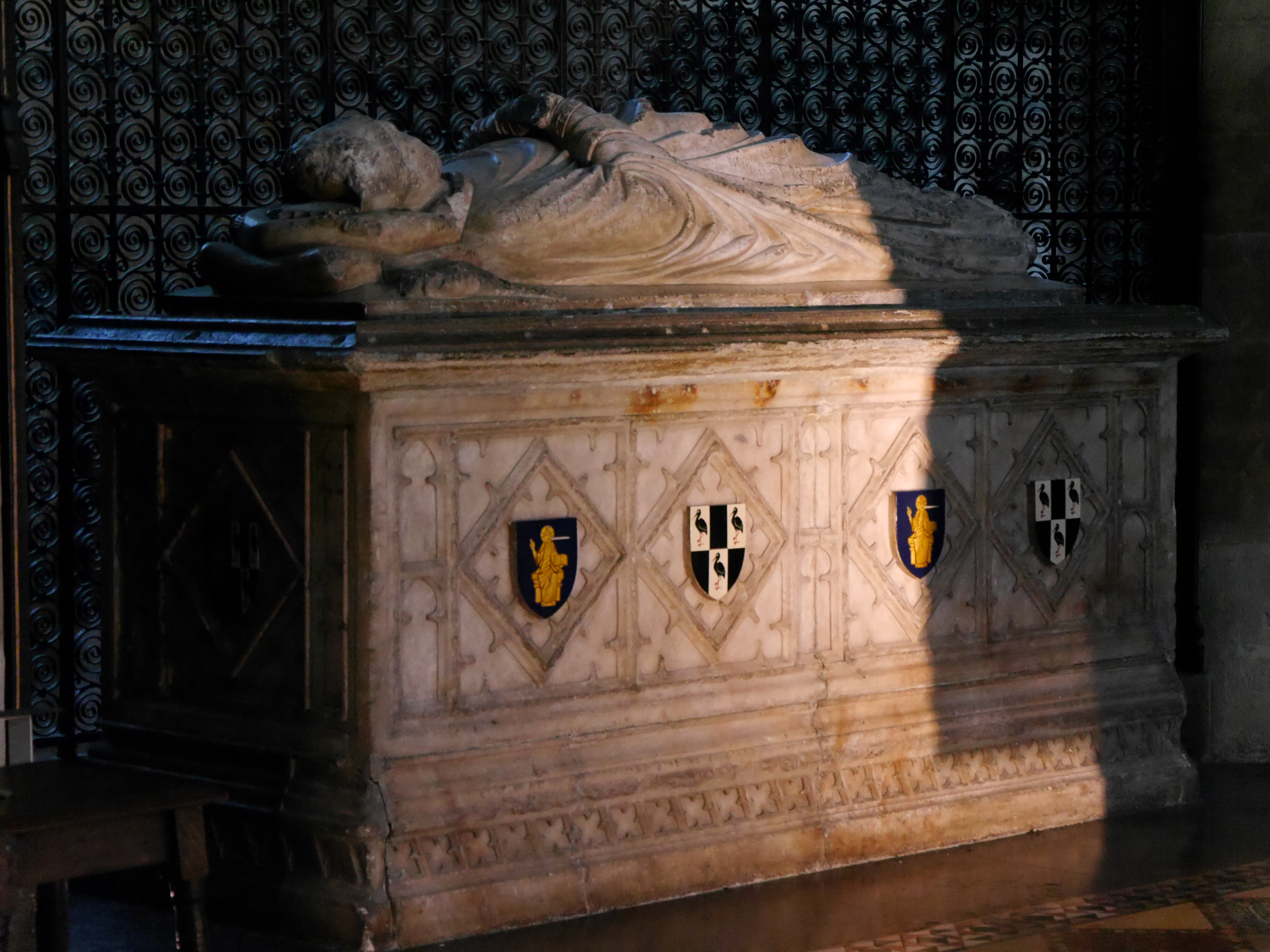 Chichester Cathedral, July 2015. monument to Edward Story (or Storey) (died 1503), Bishop of Carlisle 1468–1477, and Bishop of Chichester 1477–1503. Canting arms of Story: Quarterly of six argent and sable, in the first third and fifth quarters a stork close of the second; also showing the arms of the See of Chichester.